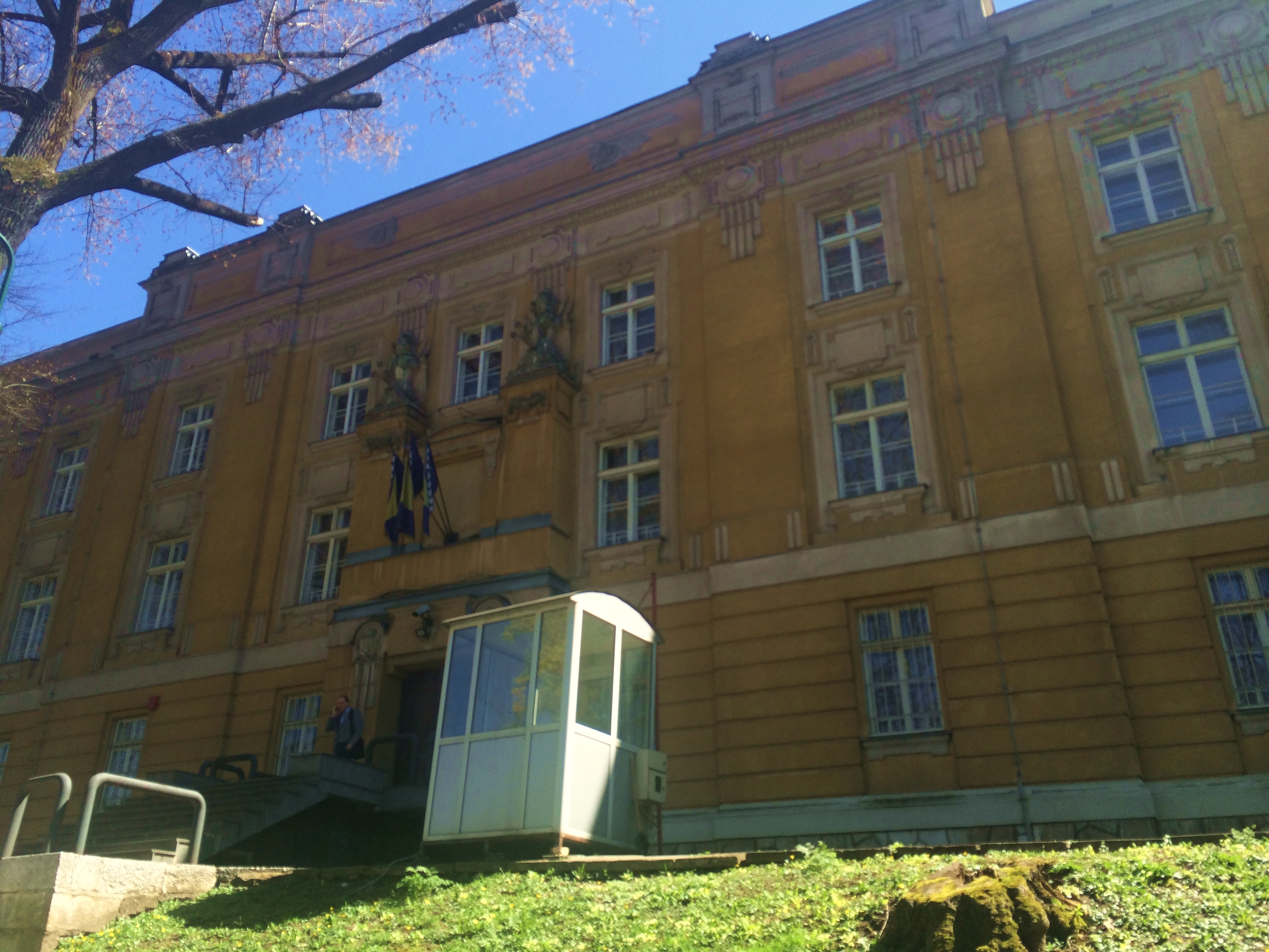 Image of the Ministry of Defence, Sarajevo, Bosnia & Hercegovina. The building was erected by the Austrians.